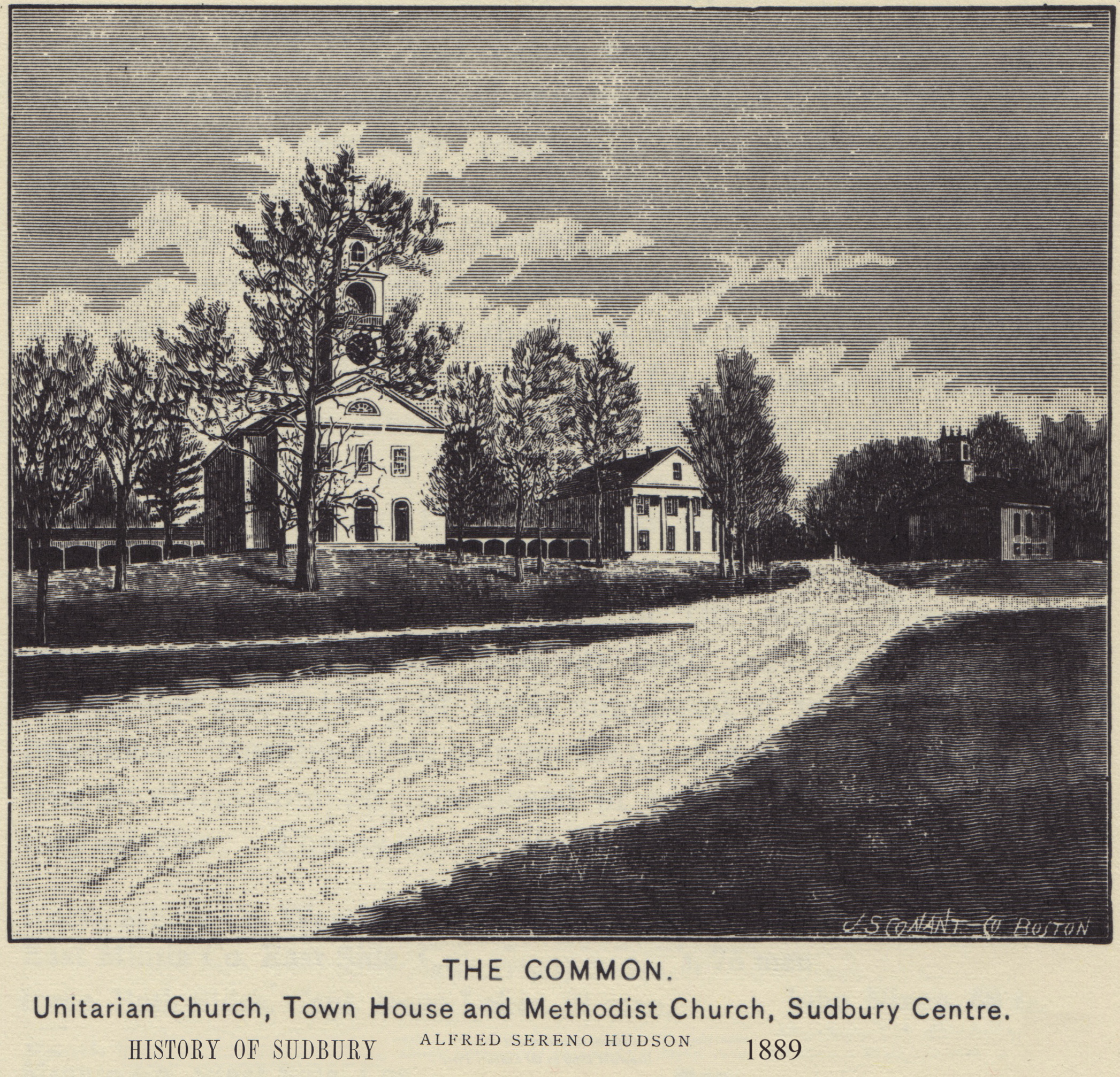 The Common, Unitarian Church, Town House and Methodist Church, Sudbury Centre as published in ALFRED SERENO HUDSON's HISTORY OF SUDBURY, MASSACHUSETTS. 1638-1889